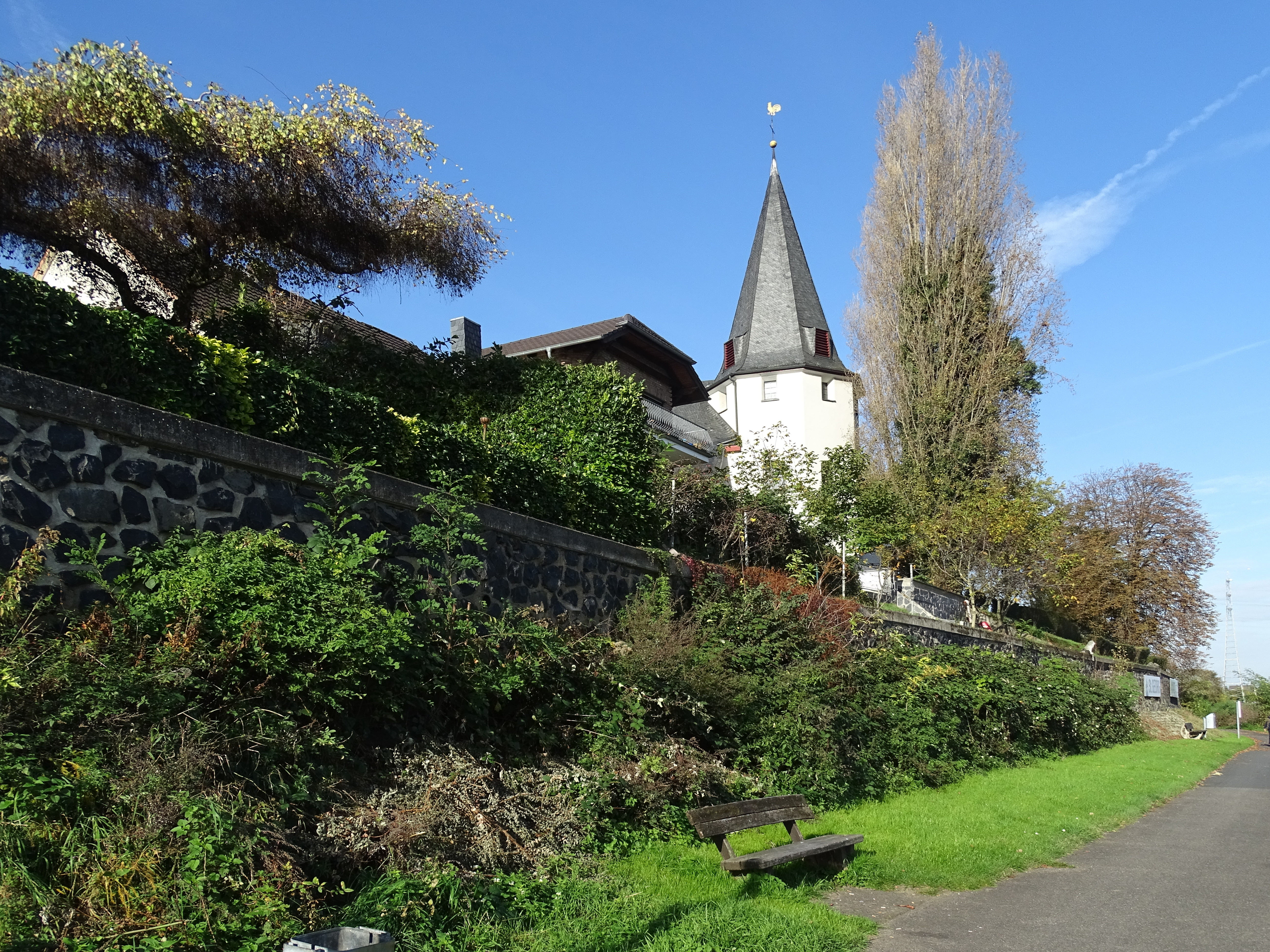 Catholic parish church of St. Georg in Widdig, Römerstraße 63: view from the Rhine shore